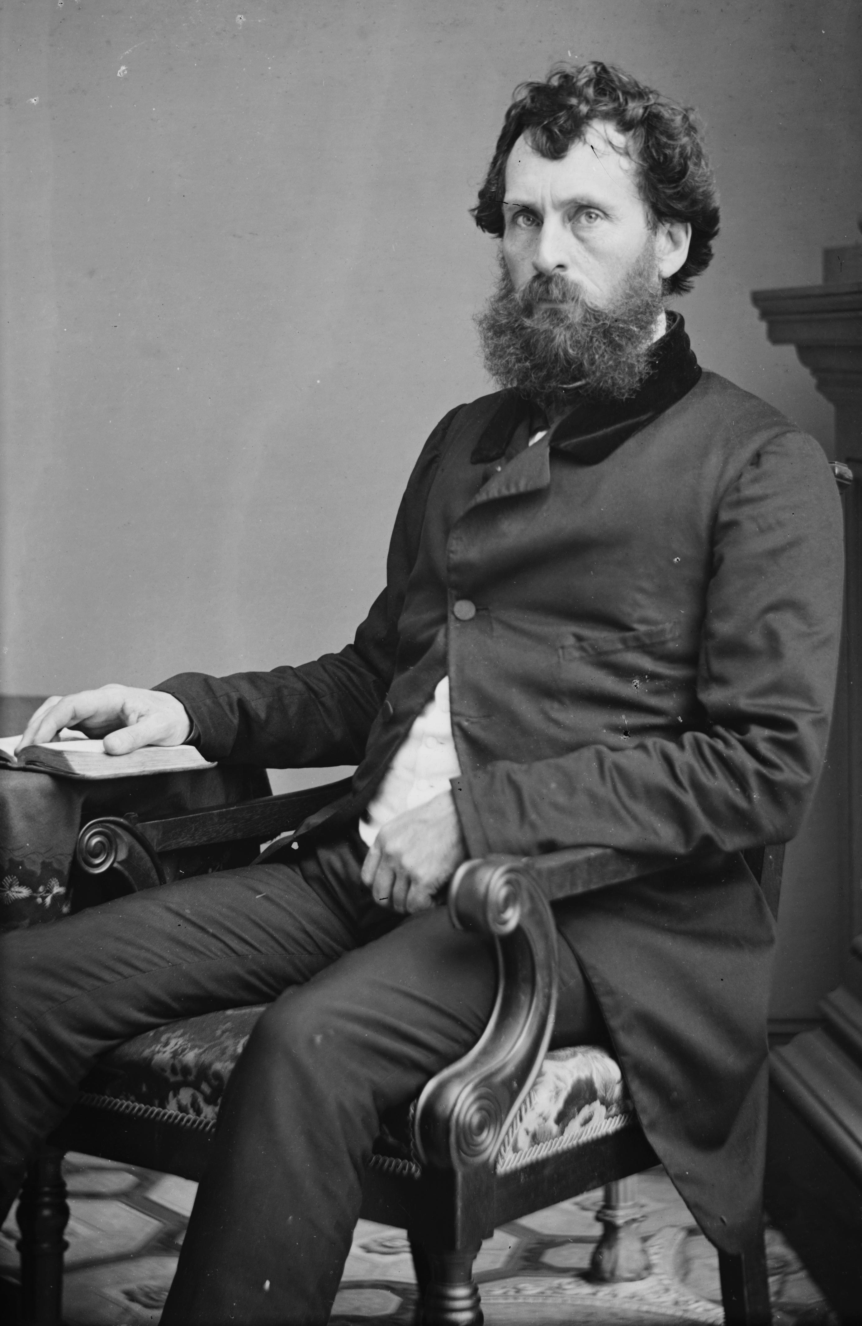 John Bigelow. Library of Congress description: "John Bigelow".